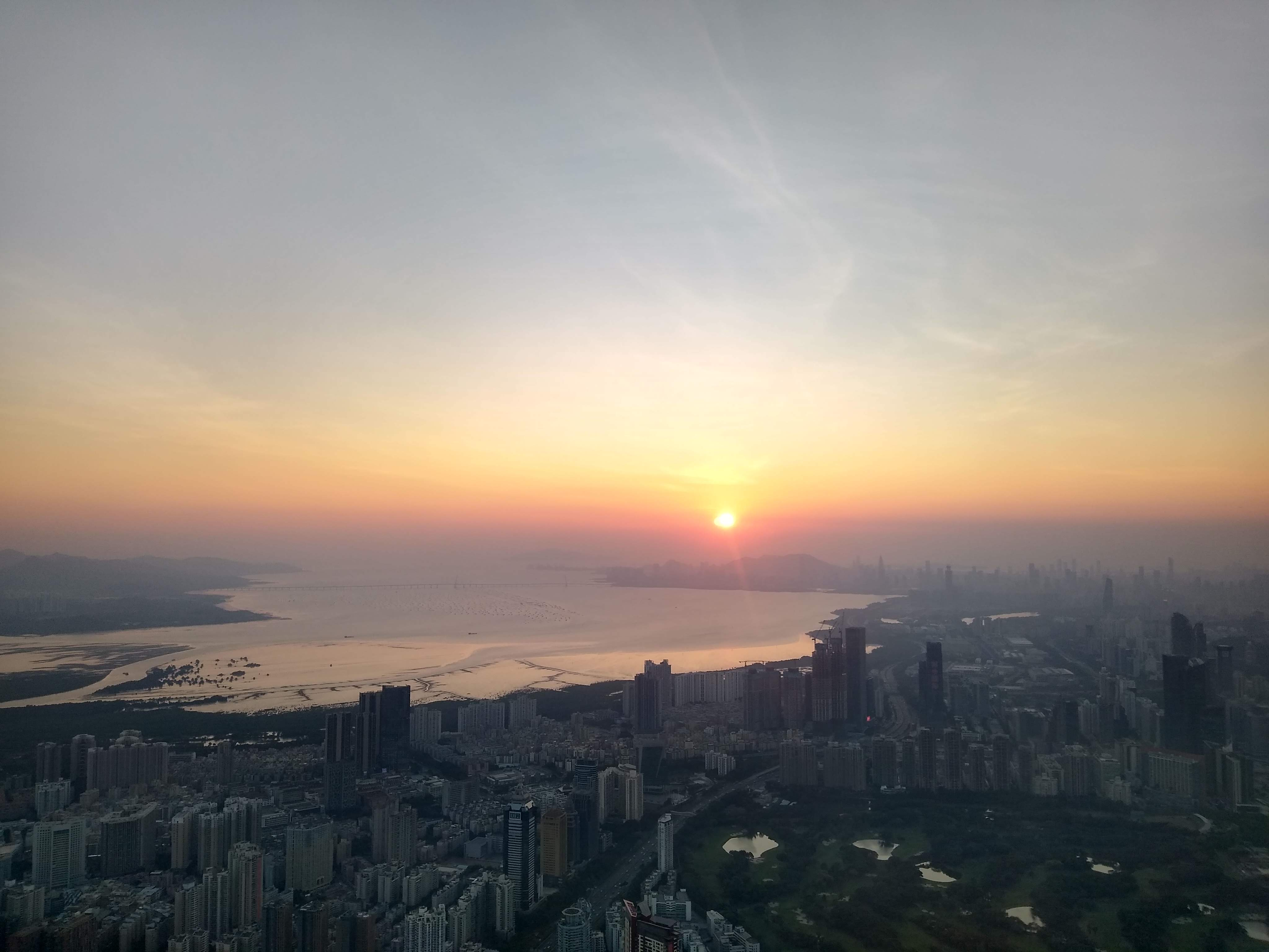 A view of the sunset over Shenzhen, from the Free Sky observation deck at Ping An Finance Centre in Shenzhen, China.